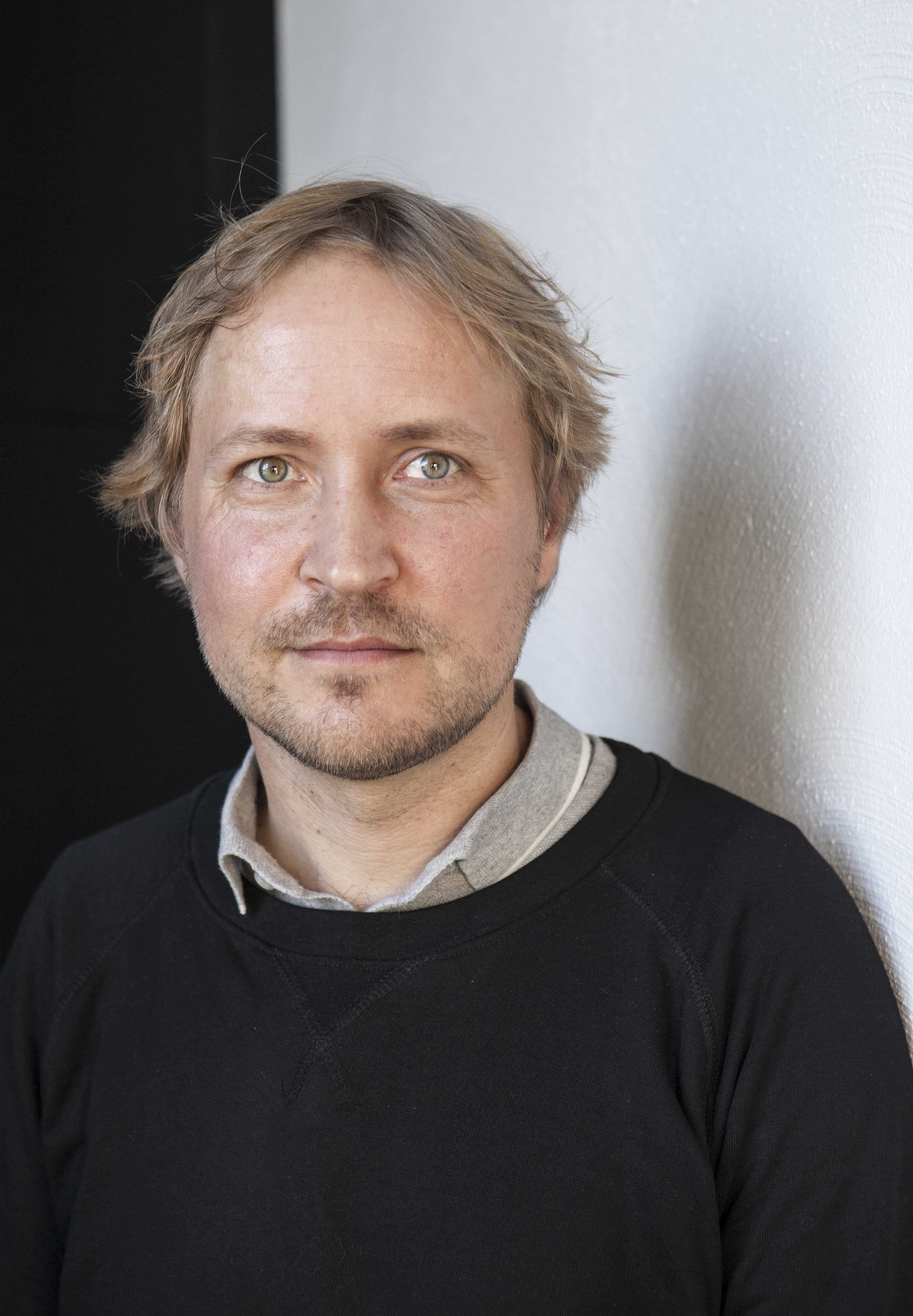 Kiasma; Eri mieltä, Nykytaiteen toisinajattelijoita, 09.10.2015 - 20.03.2016Jari Silomäkis. 1975 Parkano. Asuu Helsingissä.b. 1975 Parkano, Finland. Lives in Helsinki.kuva / Photo:Kansallisgalleria / Pirje MykkänenFinlands Nationalgalleri / Pirje MykkänenFinnish National Gallery / Pirje Mykkänen